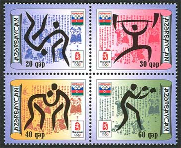 Stamp of Azerbaijan